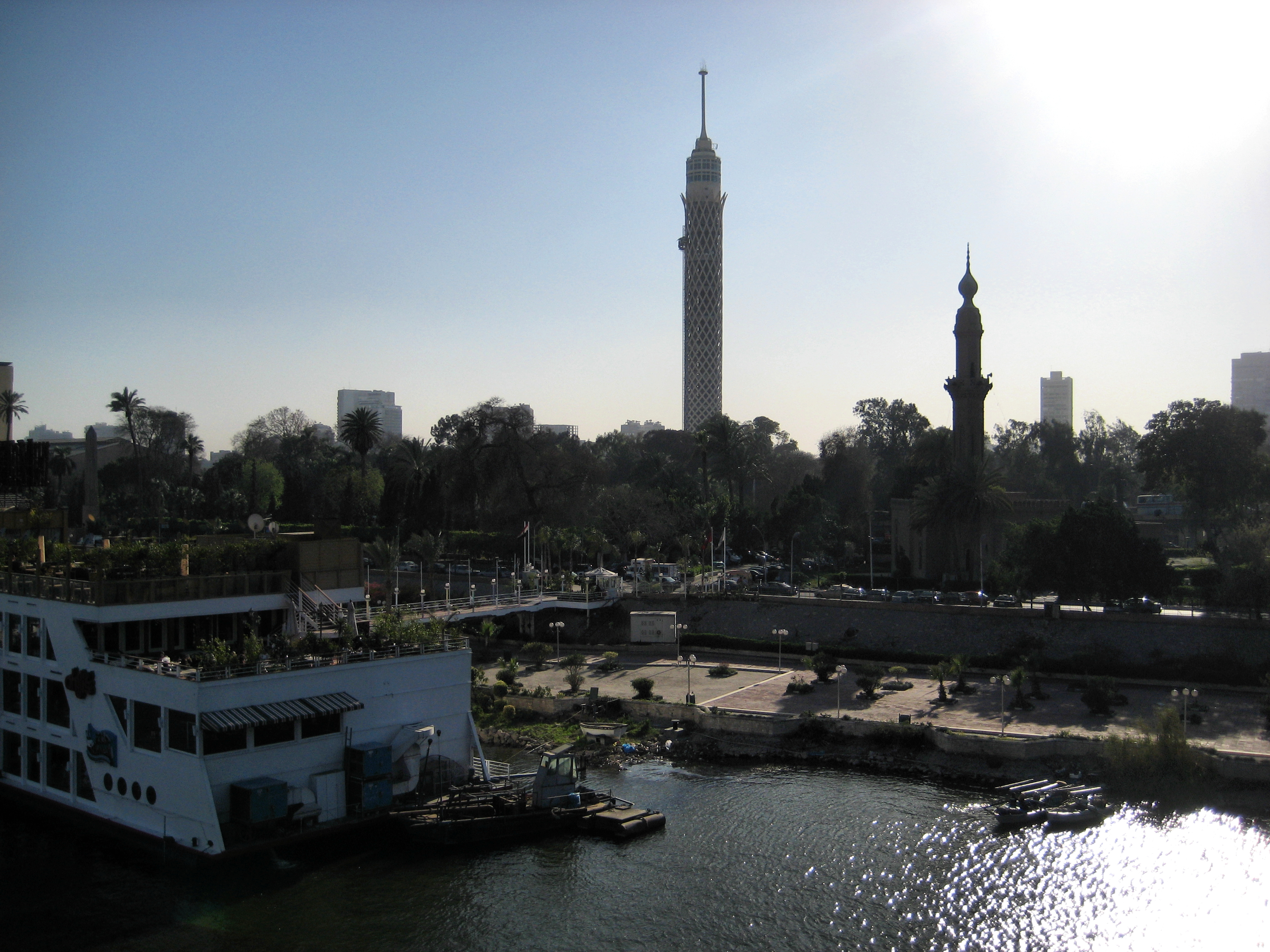 Nile Riverbank (Cairo)